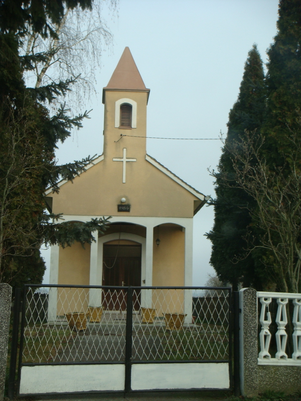 Samoborec - Chapel After